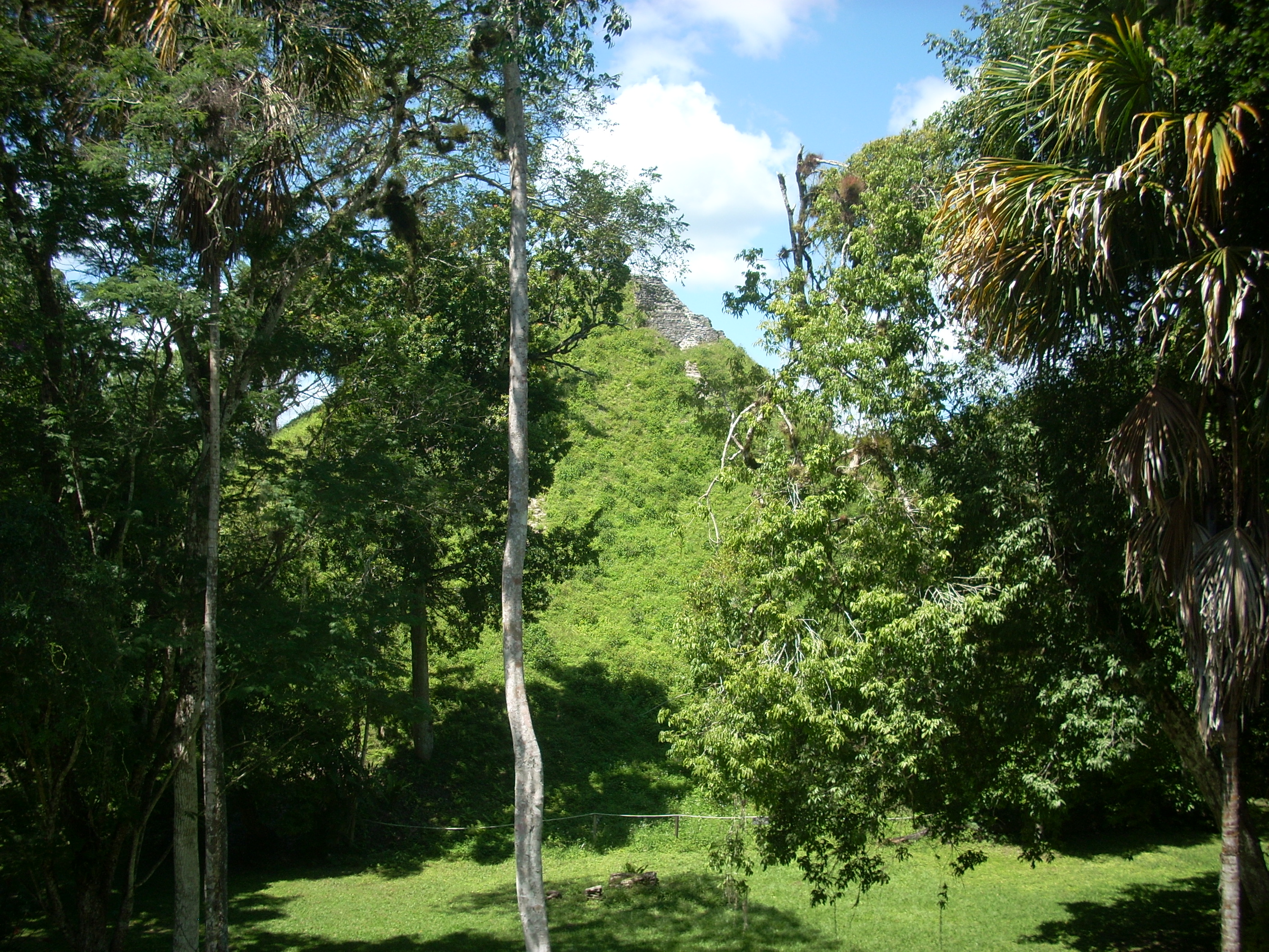 East side of the Lost World Pyramid 5C-54 in the Mundo Perdido Complex, Tikal, Peten, Guatemala.